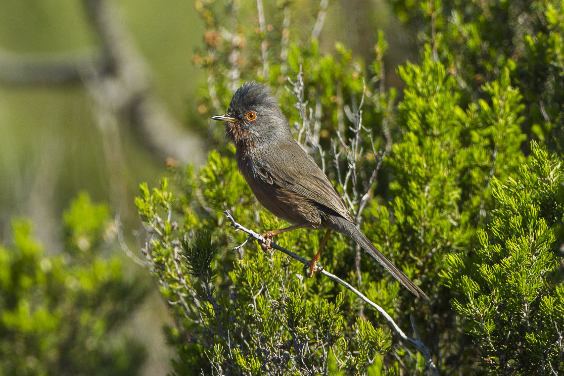 Dartford Warbler - Arenzano - Italy_301